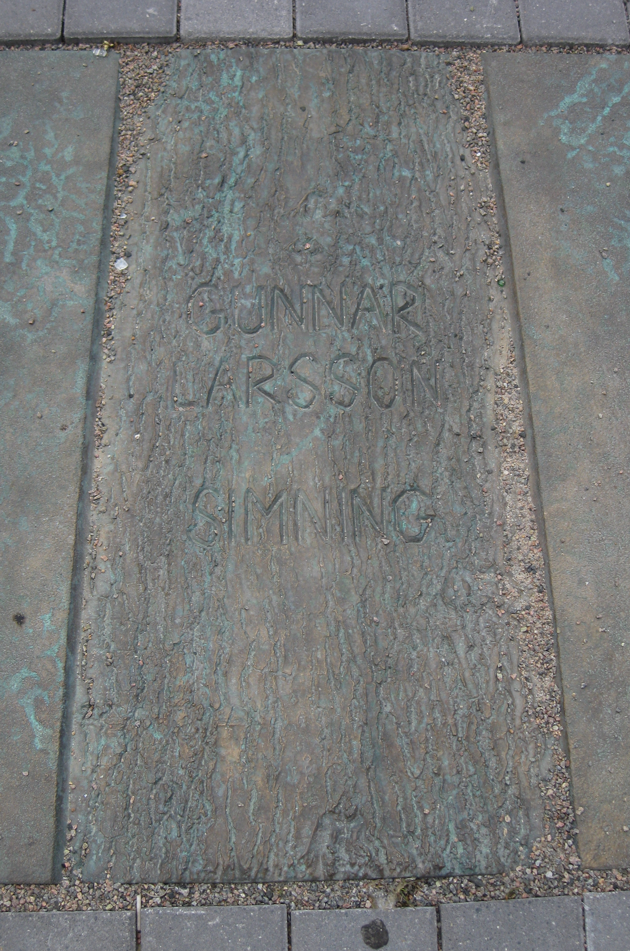 Plaque for Gunnar Larsson at Malmö walk of fame.